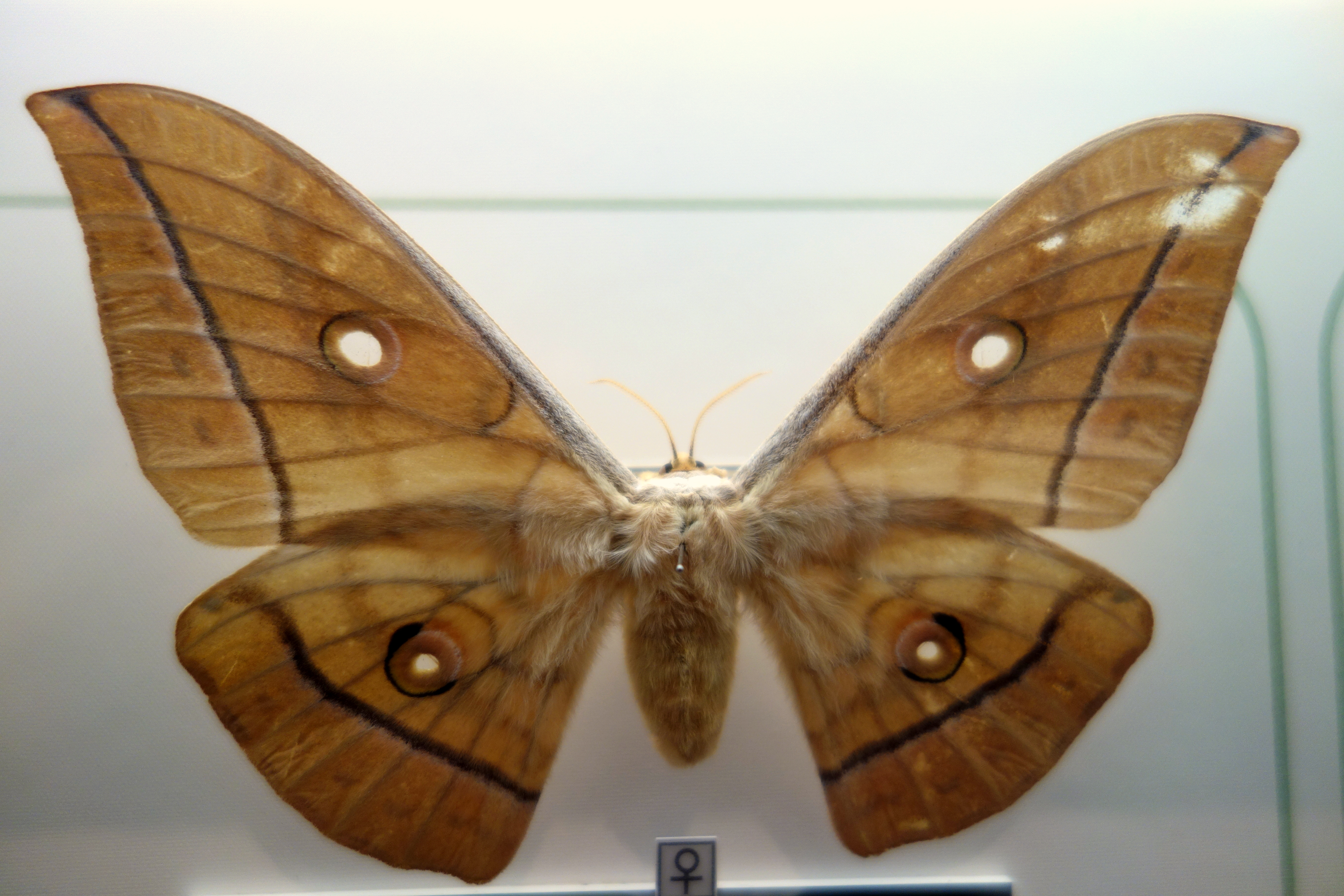 Exhibit in the National Museum of Nature and Science, Tokyo, Japan.